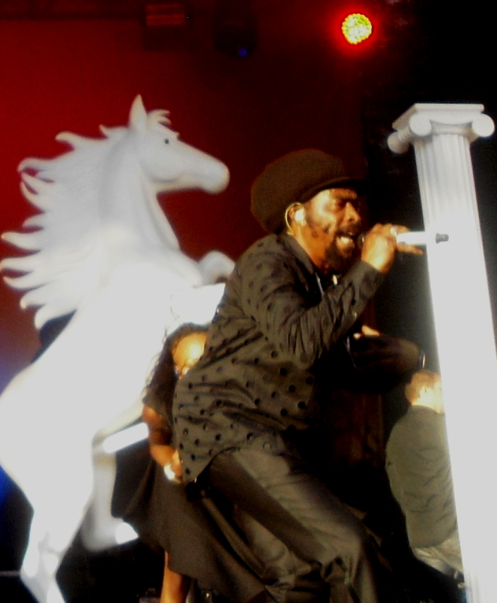 live performance on July 10, 2012; Natty Silver